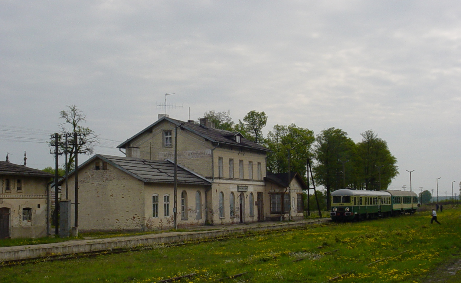 Tourist train (diesel railcar SN61) in Wiatrowiec Warmiński, Poland, on route 38.